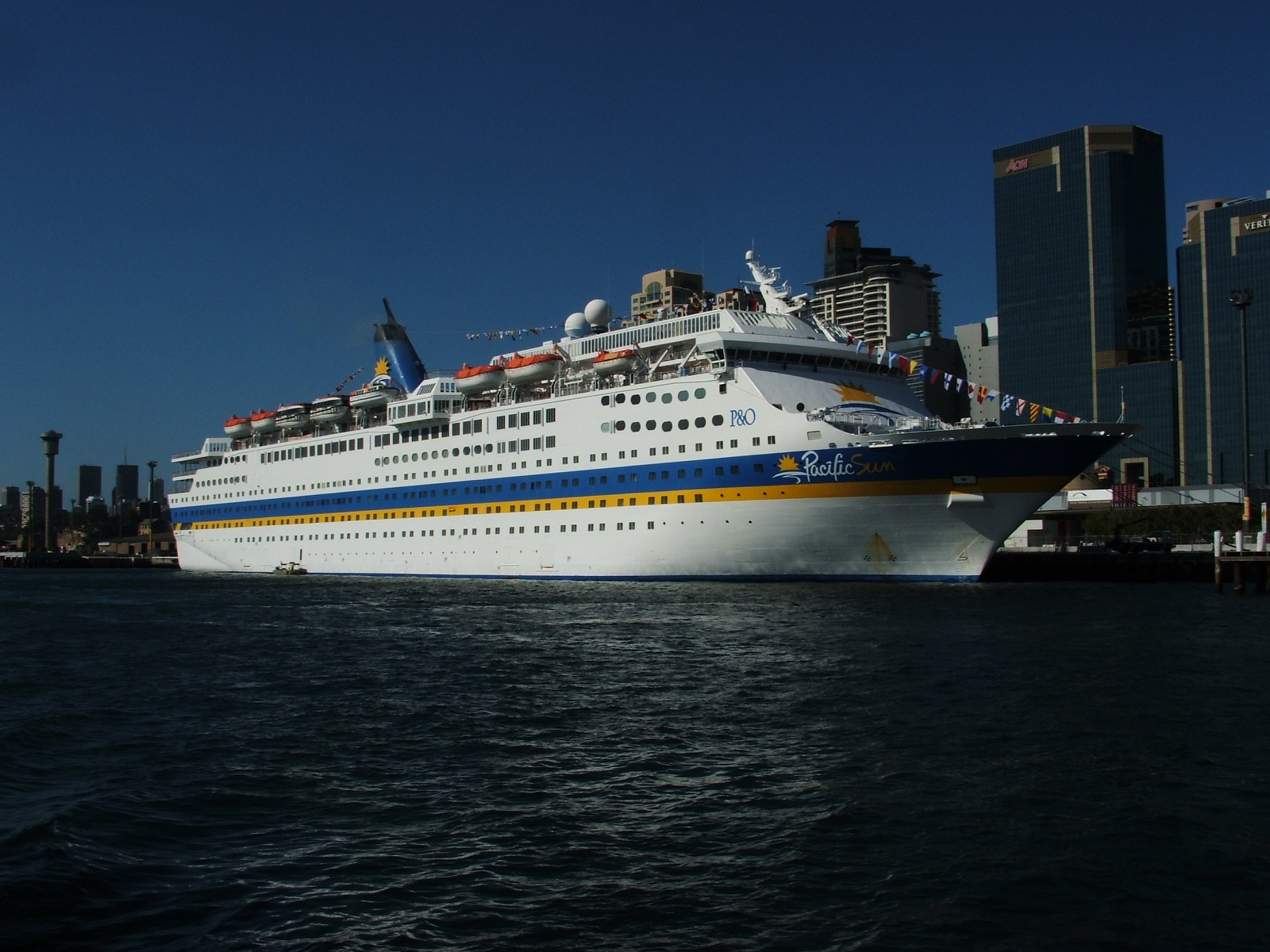 Photograph of cruise ship Pacific Sun, docked at Darling Harbour, Sydney, Australia